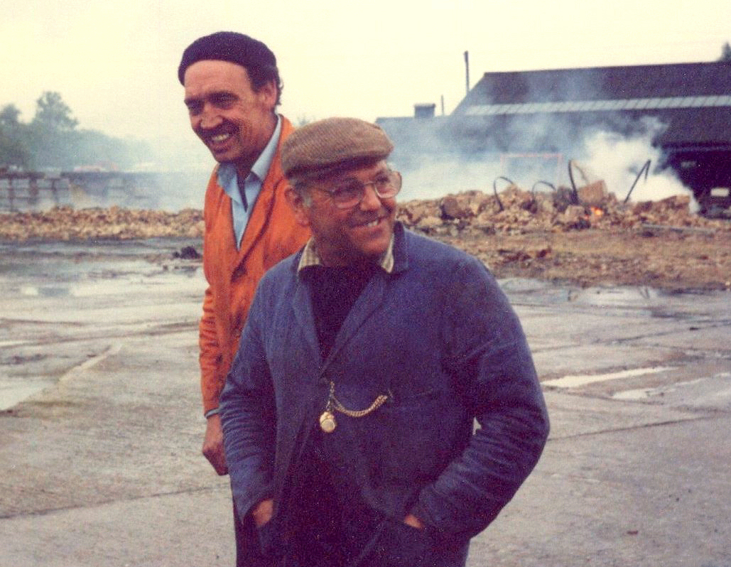 Fred Dibnah at Leighton Buzzard (June 1985), the smoking remains of a felled chimney are in the background